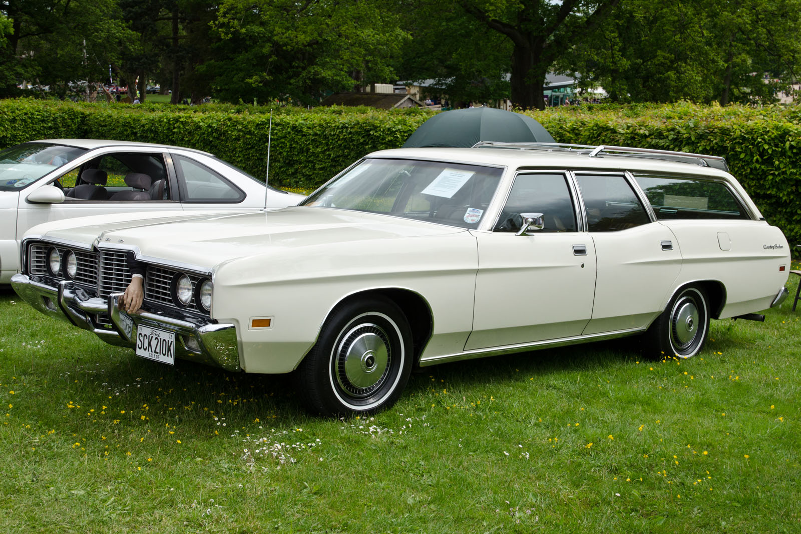 Trentham Gardens Classic Car Show 16/06/2013